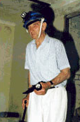 Dennis Woods, 1998, during his return visit to Gibraltar. He confirmed the authenticity of the Operation Tracer site.